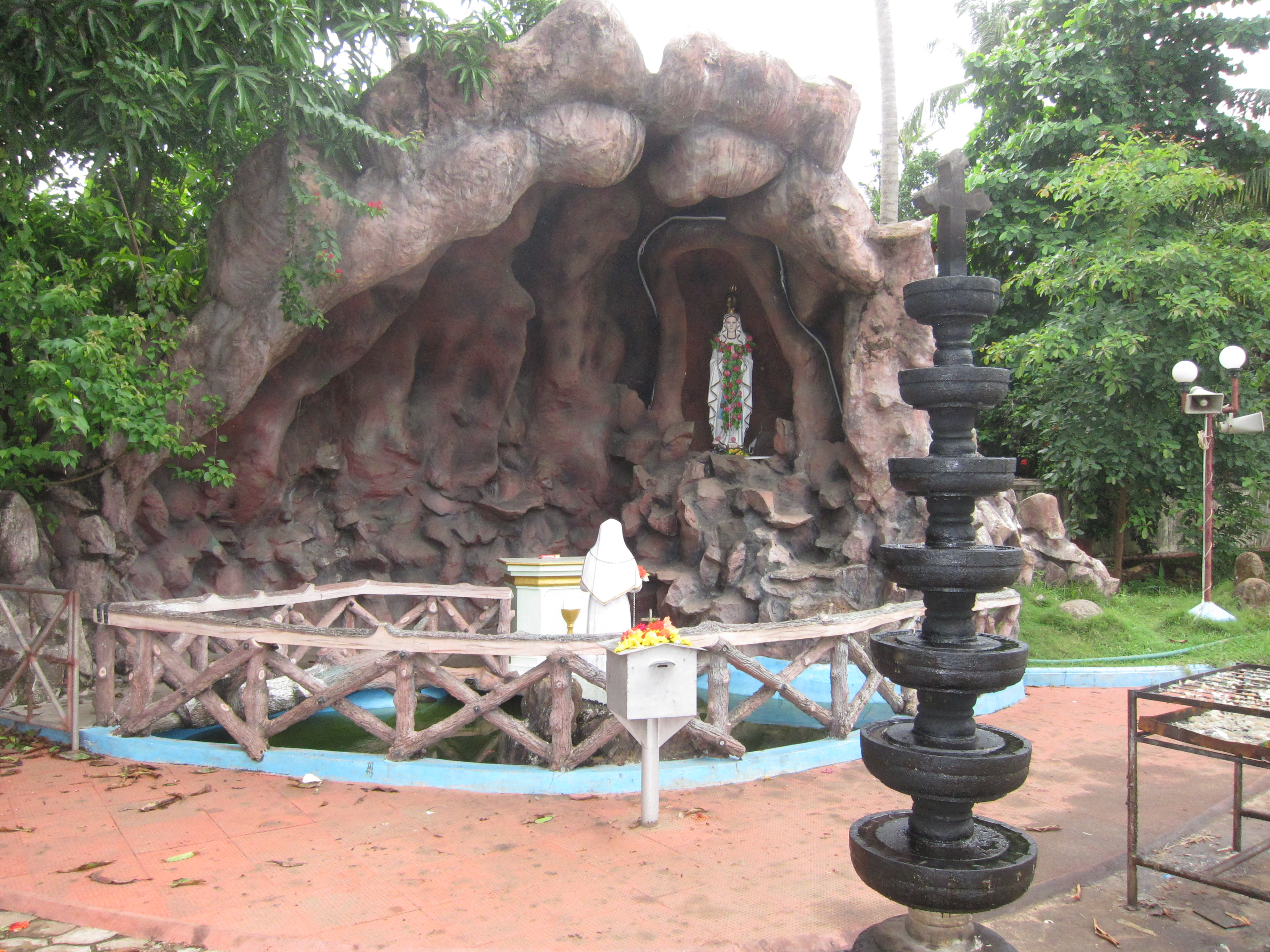 Grotto Chalakludy West Church, Irinjalakuda Diocese, Thrissur Arch-Diocese, Roman Catholic - Syro Malabar, Thrissur District, 2 km away from Chalakudy